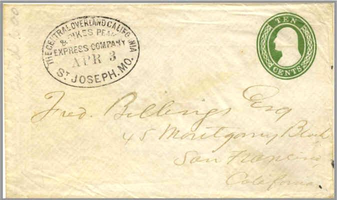 Poney Express cover of the United States. First Westbound Pony Express cover. Only one known to exist. Postmarked April 3, 1860.